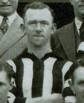 Photograph of Alex Moore in 1943